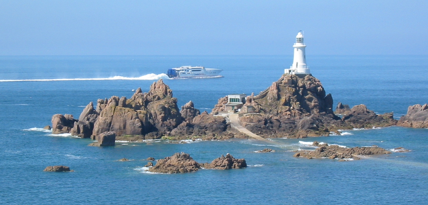 Saint Saint Brelade, Jersey